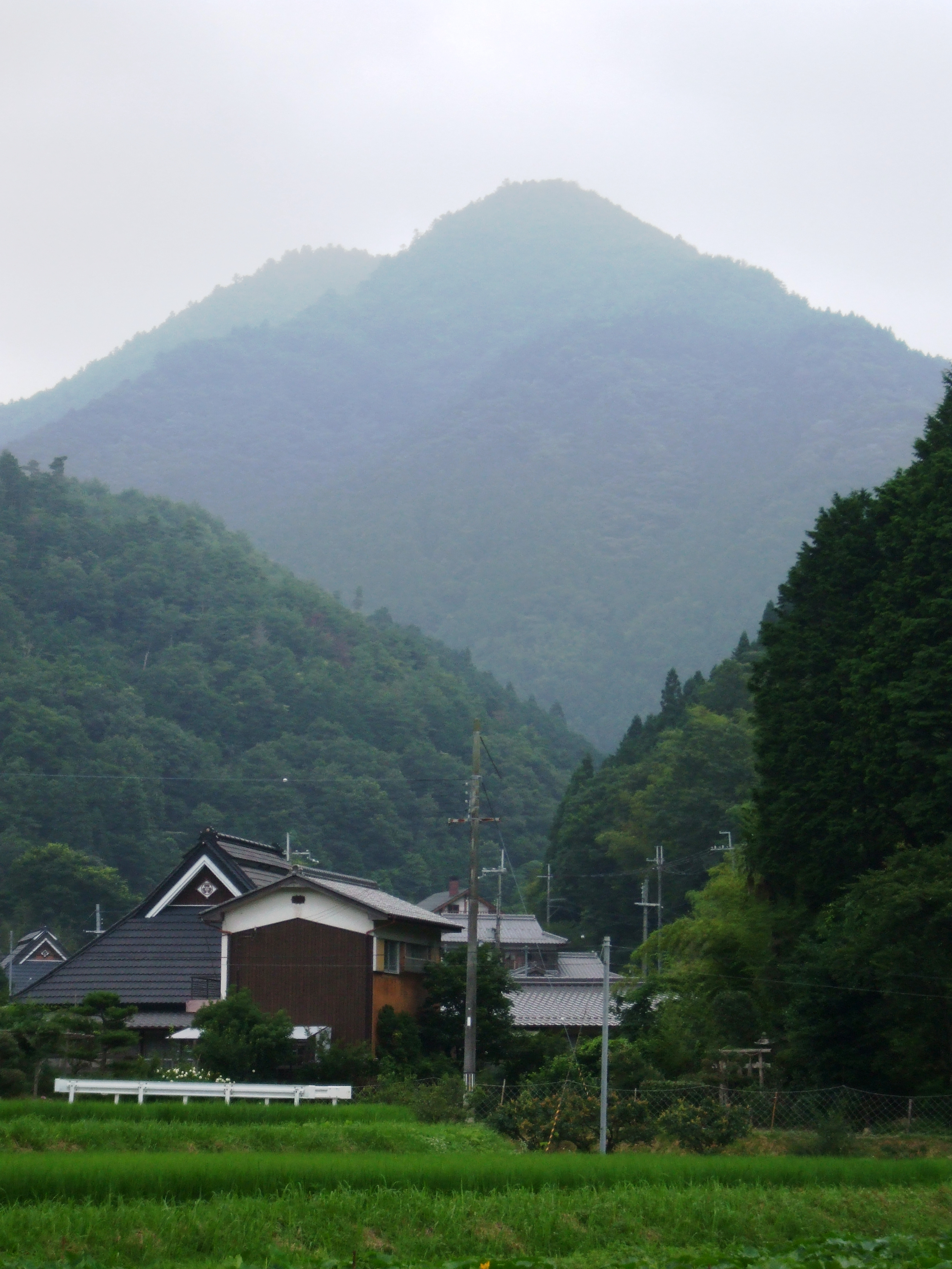 Mount Shirakami, from Sumiyama, Hyogo, Japan.